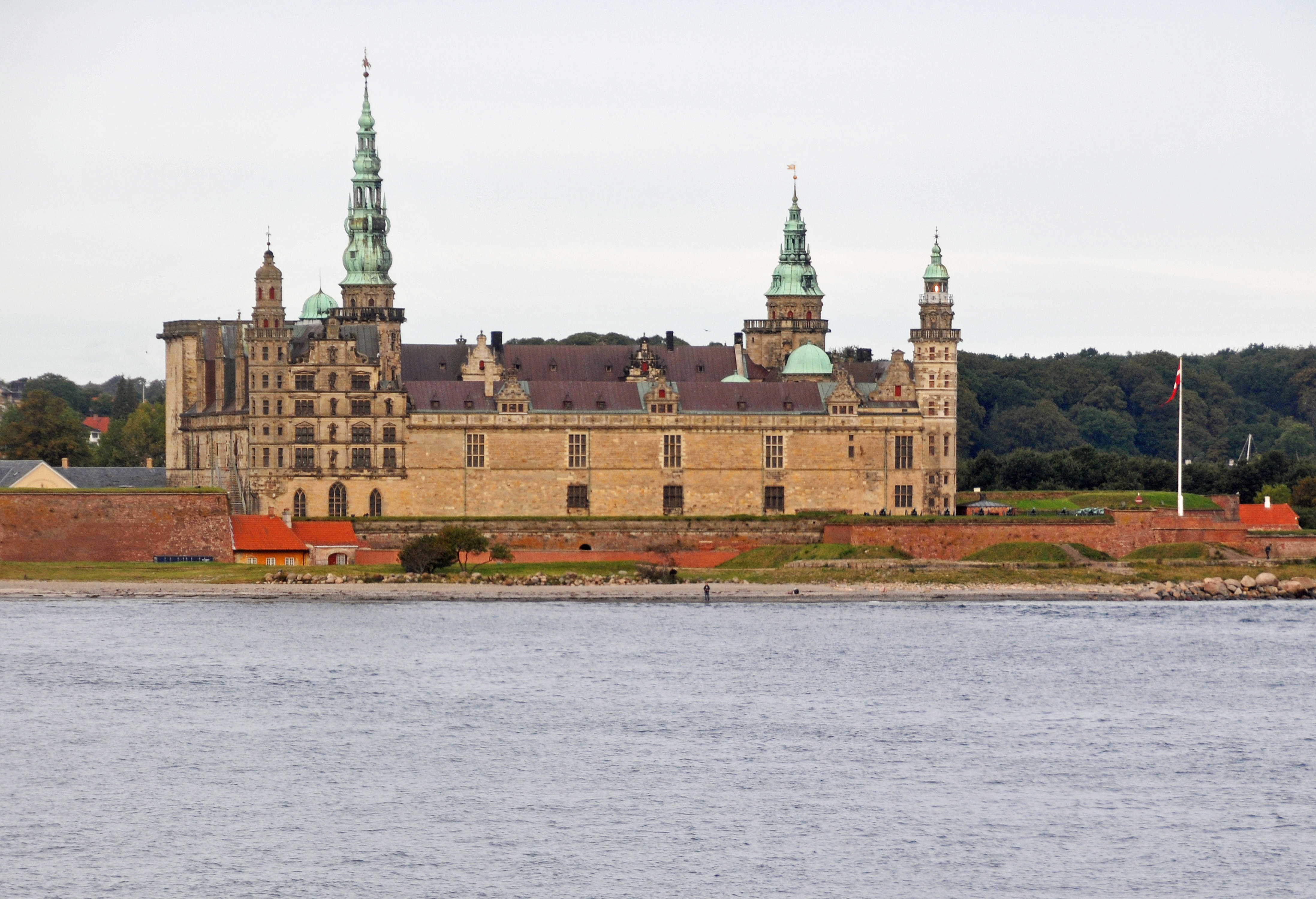 PLEASE, no multi invitations in your comments. Thanks. I AM POSTING MANY DO NOT FEEL YOU HAVE TO COMMENT ON ALL - JUST ENJOY. Leaving Elsinore, Denmark to reach Helsingborg, Sweden, the ferry passes by Kronborg Castle.